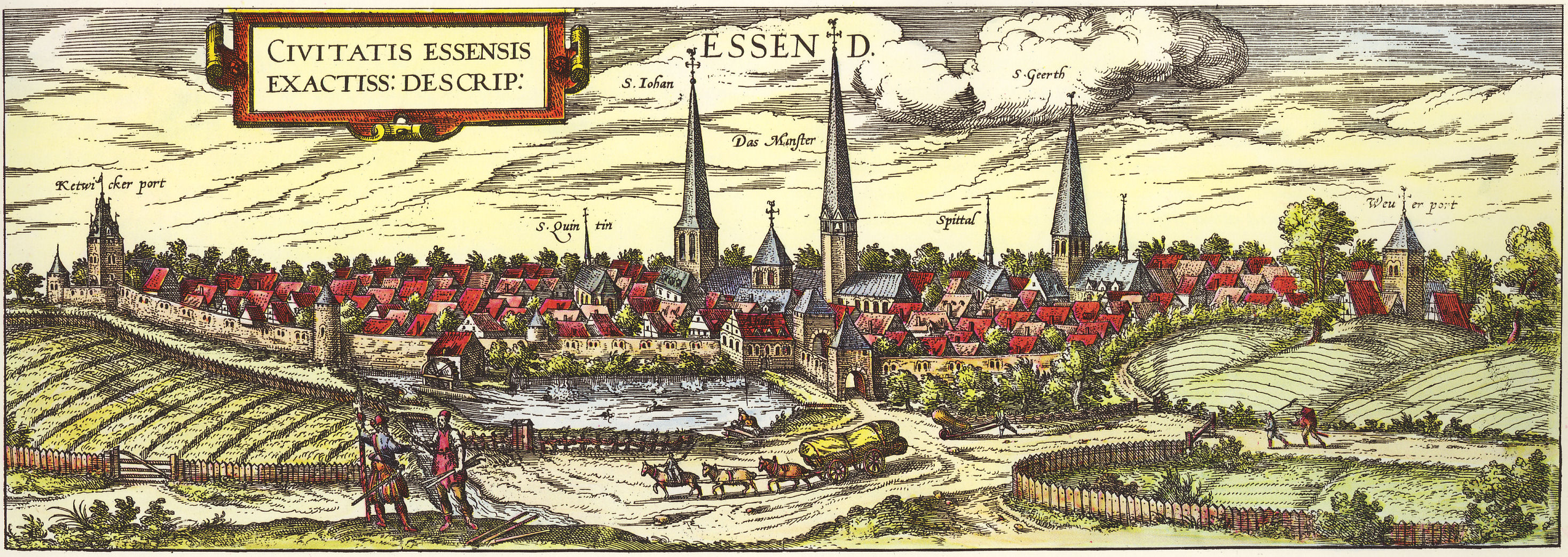 historical sight of the German town of Essen by Georg Braun and Frans Hogenberg (between 1572 and 1618)